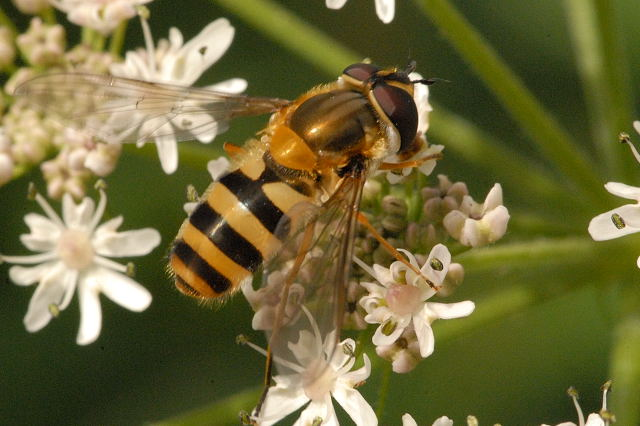 Epistrophe grossulariae from Commanster, Belgian High Ardennes .